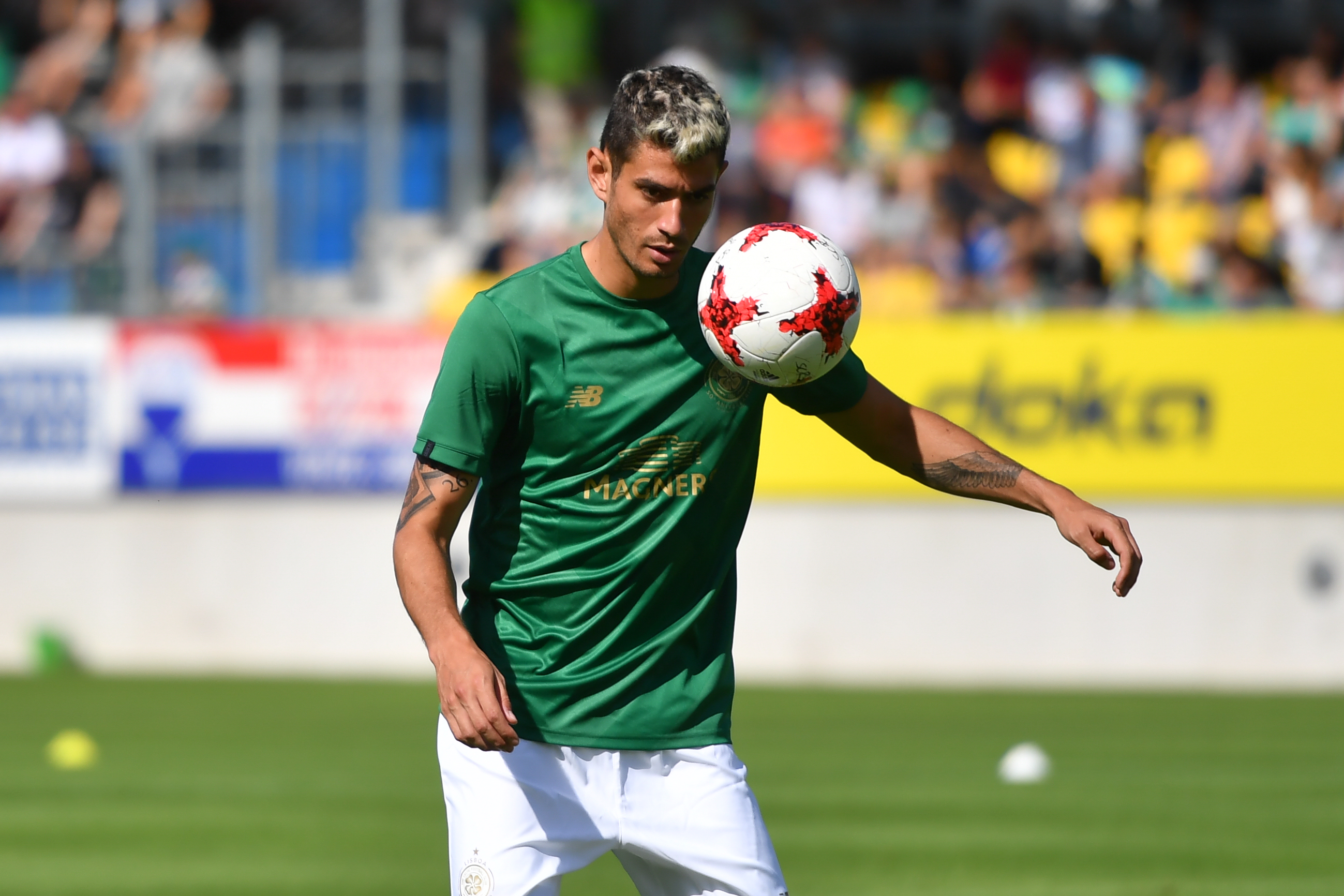 1/7/2017, Amstetten, Austria, sports, soccer, Tipico Fussball Bundesliga - preparation match SK Rapid Wien vs Celtic Glasgow. Image shows Nir Bitton (Celtic FC).